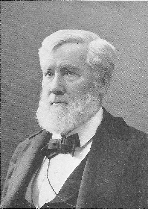 Photograph of James Frederick Joy